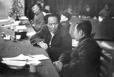 Mao Zedong at the 7th National Congress of the Communist Party of China